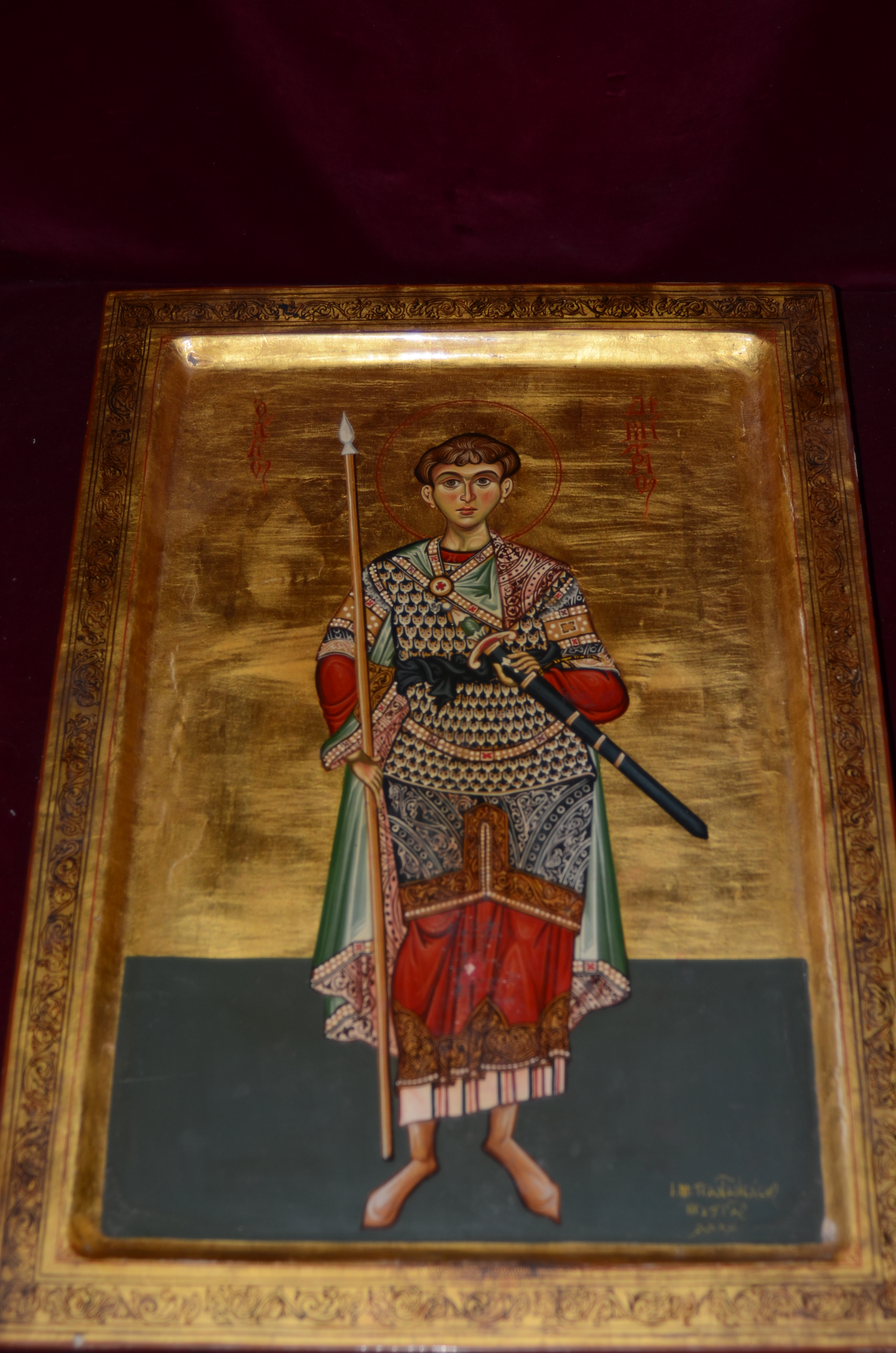 Icon in a church in the mediaeval fortified town of Mystras.